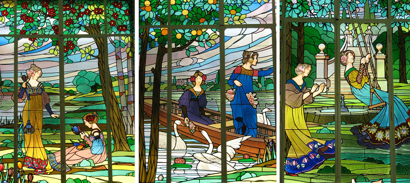 Cerdanyola-Les-dames-de-Cerdanyola